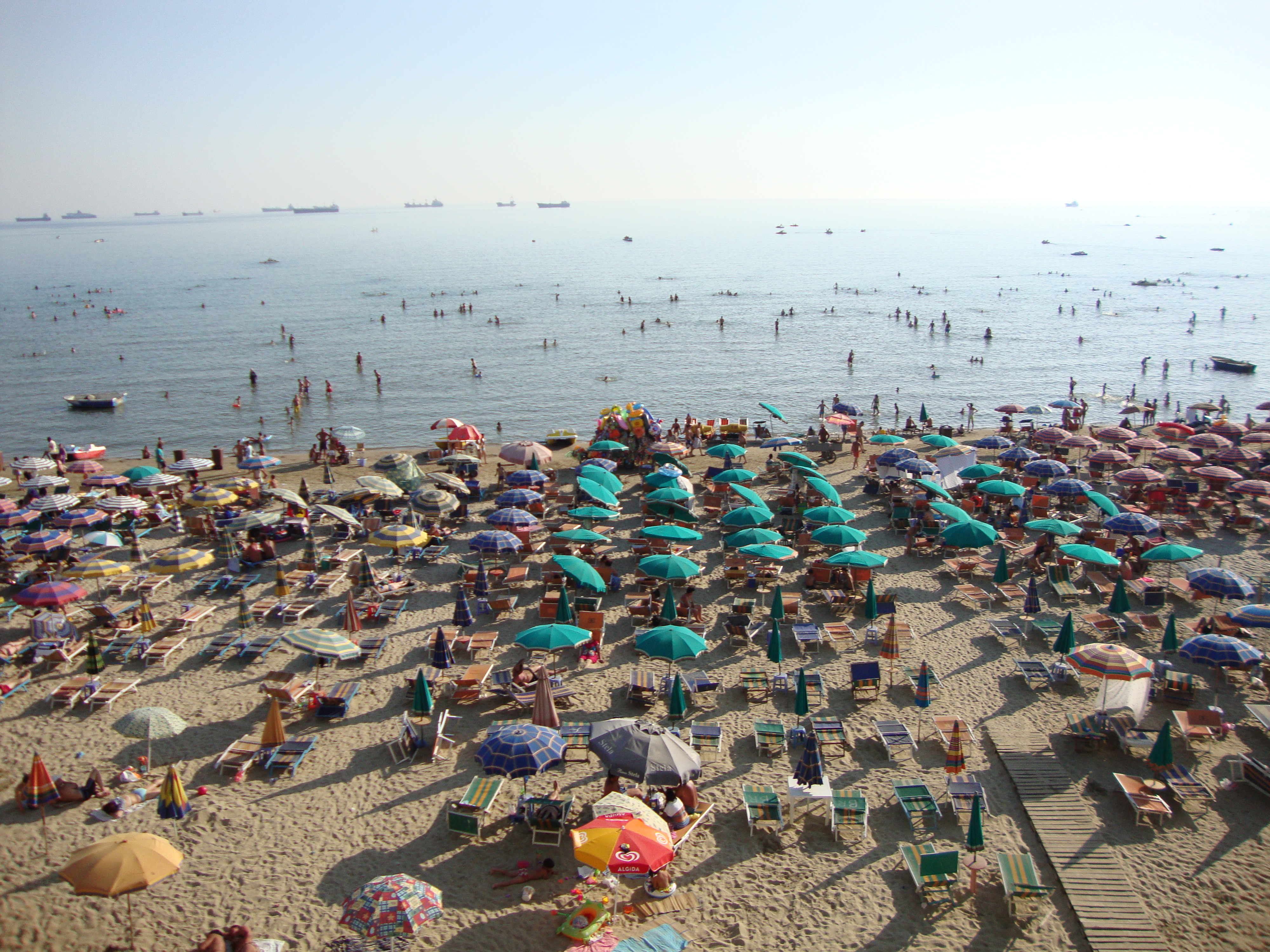 Panoramic view of the Durrës beach during the summer